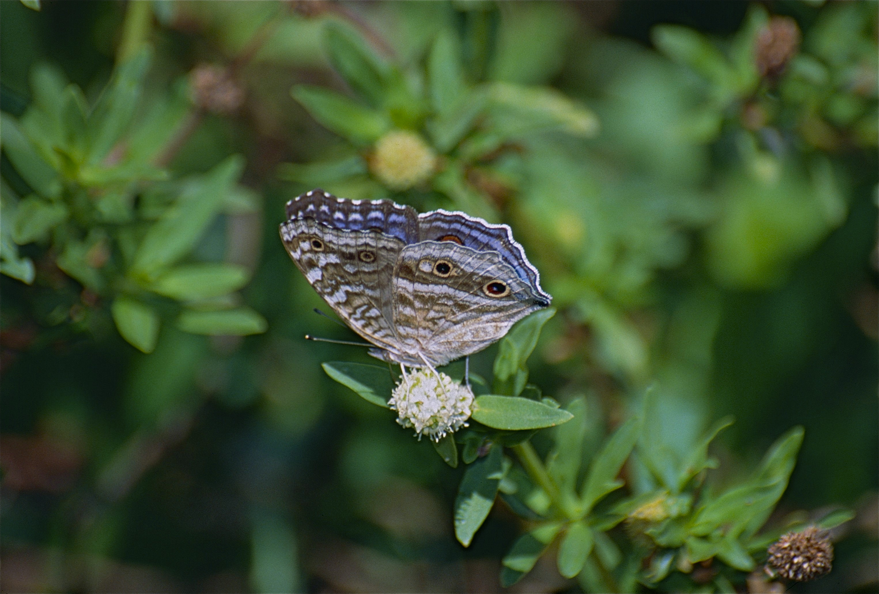 Botanical Garden, Tolagnaro, MADAGASCAR Scanned Slide from 1998